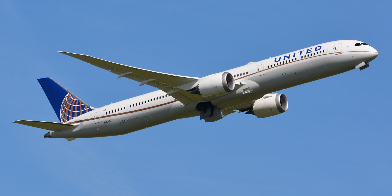 Paris-Charles de Gaulle Airport